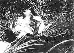 A dying woman who was cut out her breasts by South Korean Marines, Blue Dragons in Phong Nhi village, Quang Nam Province, Vietnam on February 12, 1968. Photo by Corporal J. Vaughn, Delta-2 Platoon, U.S. Marine.[1][2][3]